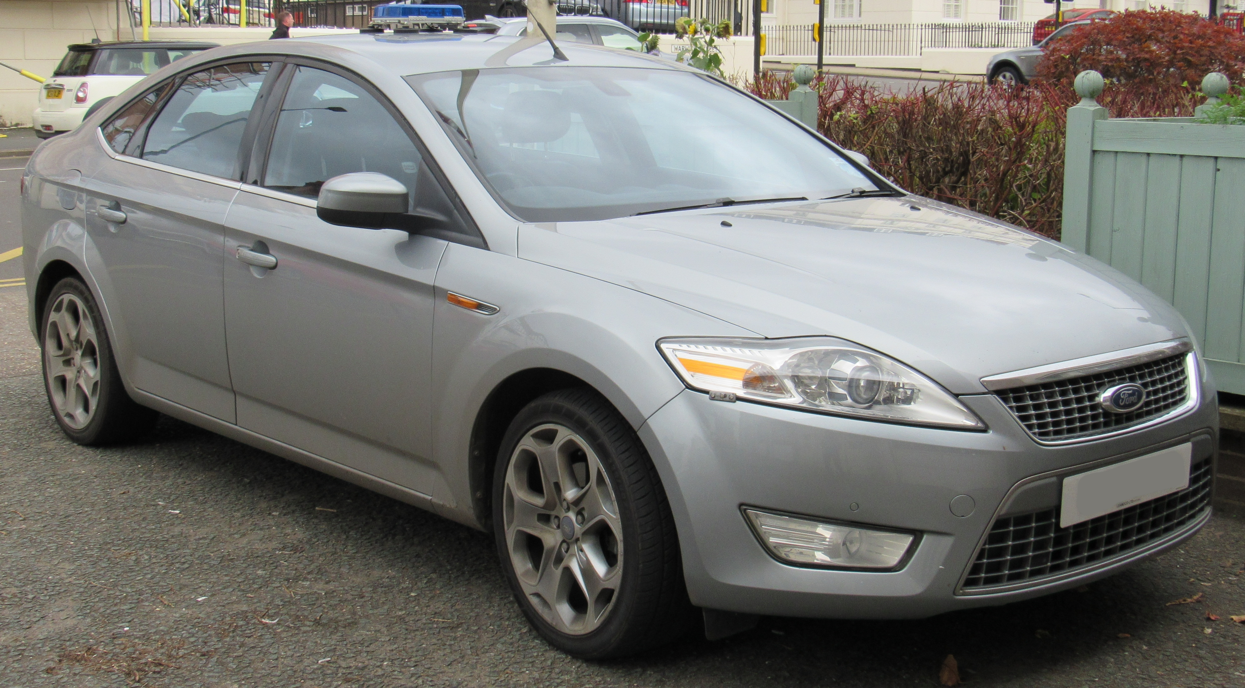 2009 Ford Mondeo Titanium X First Patrol 2.0 Front Taken in Leamington Spa